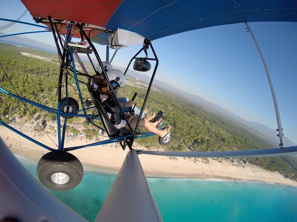 The Quicksilver Sport 2S of the Mindanao SAGA Flying Club over Dahican Beach